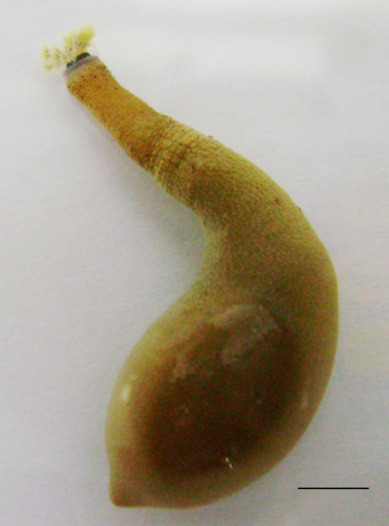 Themiste petricola, a species of the phylum Sipuncula with retractile introvert extended